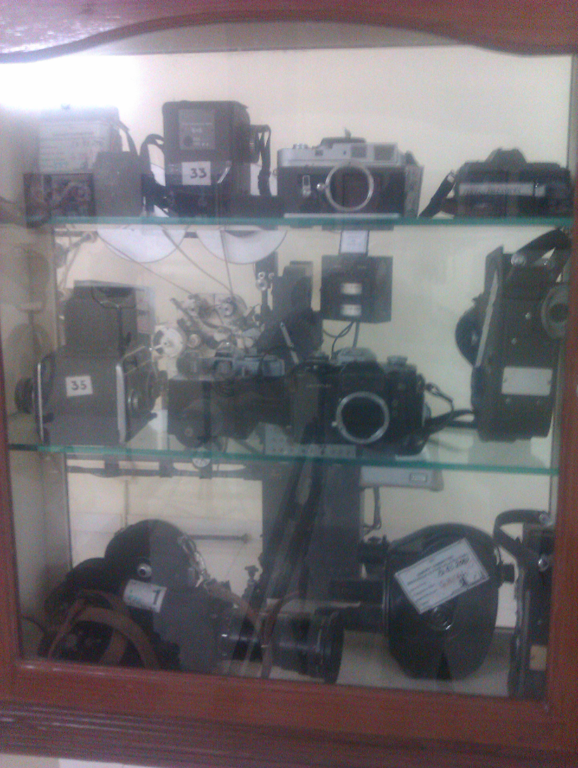 Old cameras